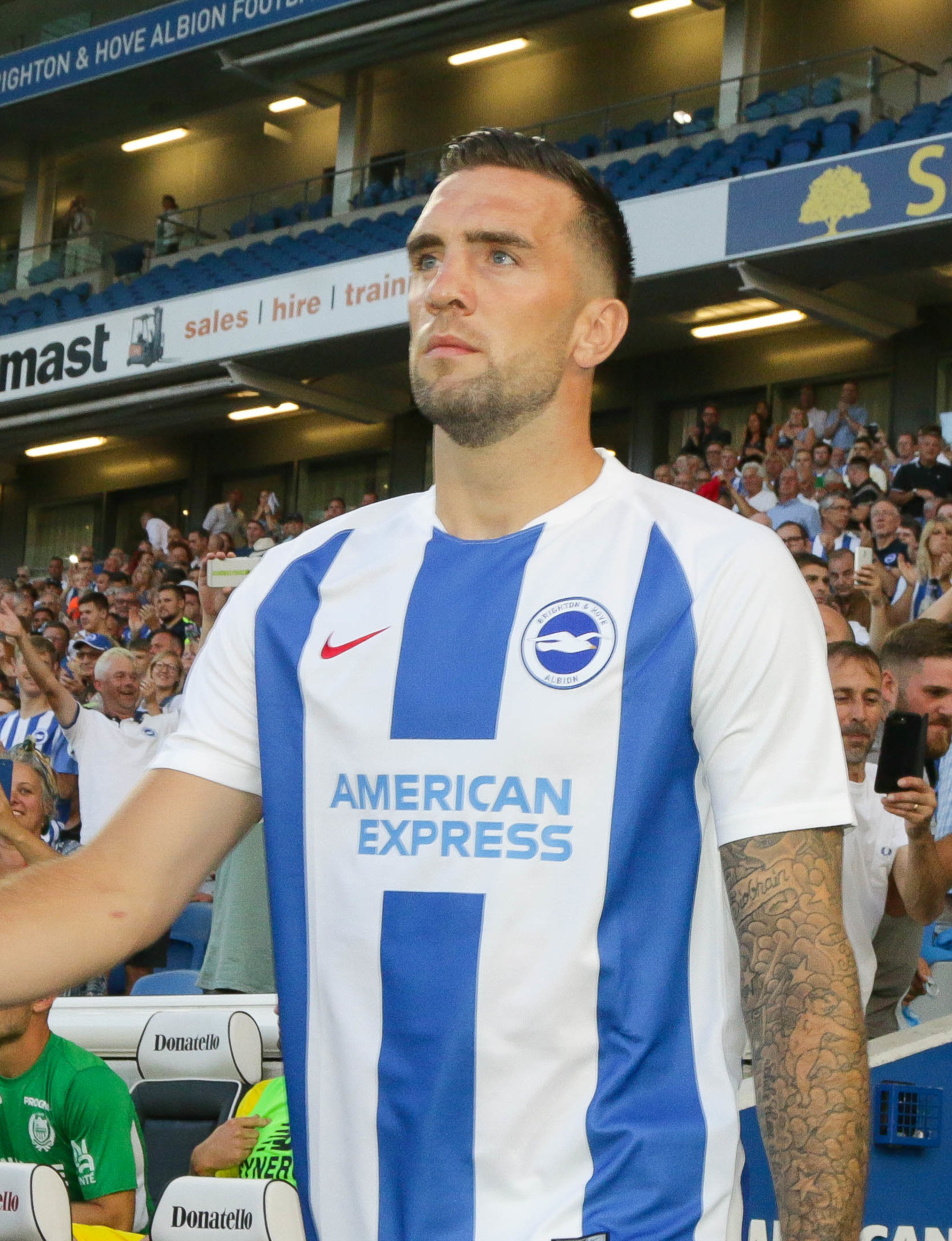 BHA v FC Nantes pre season 03 08 2018-321.jpg